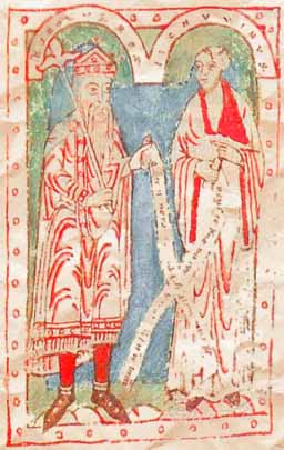 Alkuin, Icon